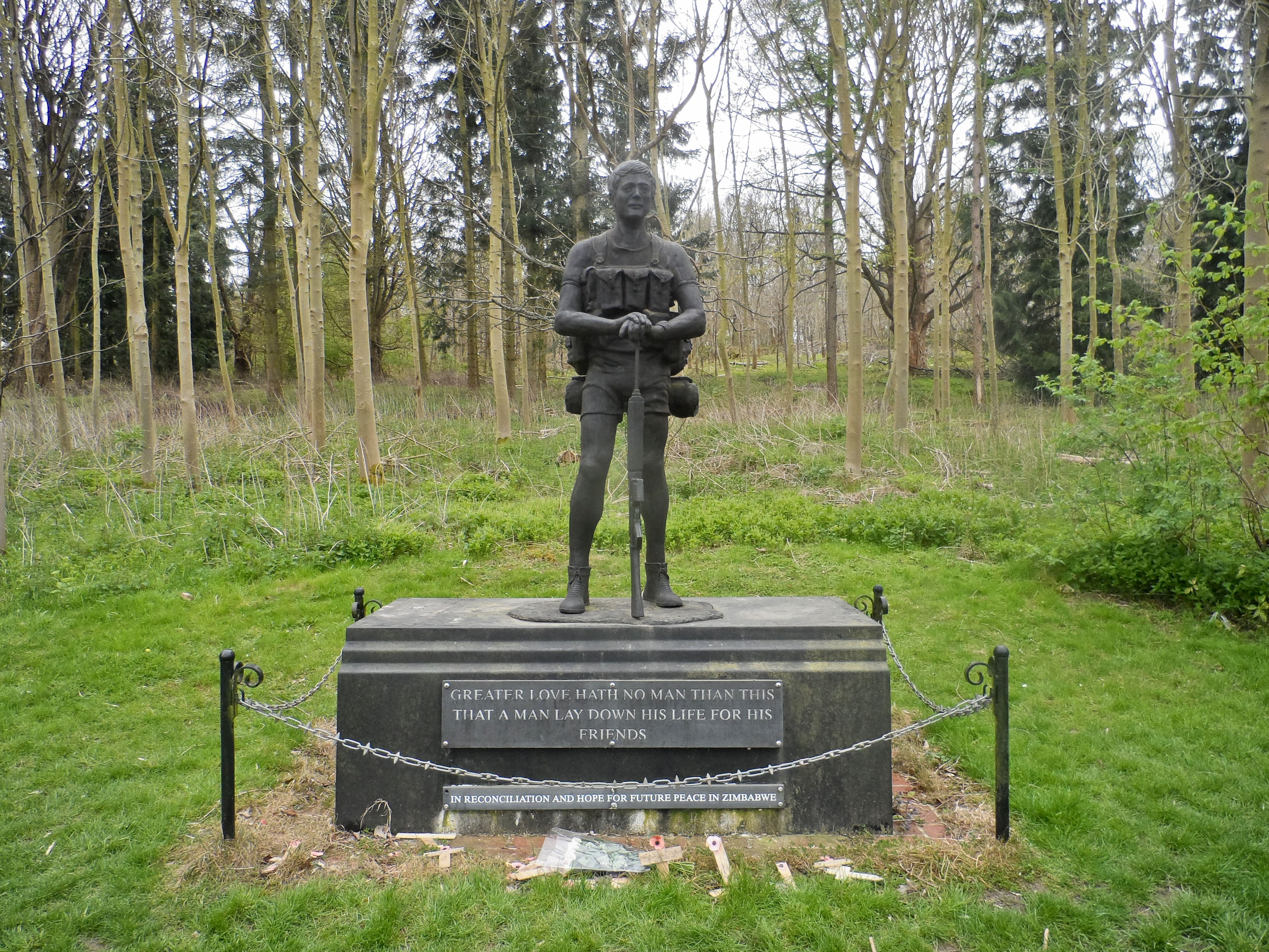 The Trooper Statue (or "Troopie"), the regimental statue of the Rhodesian Light Infantry, in the grounds of Hatfield House in England in April 2014